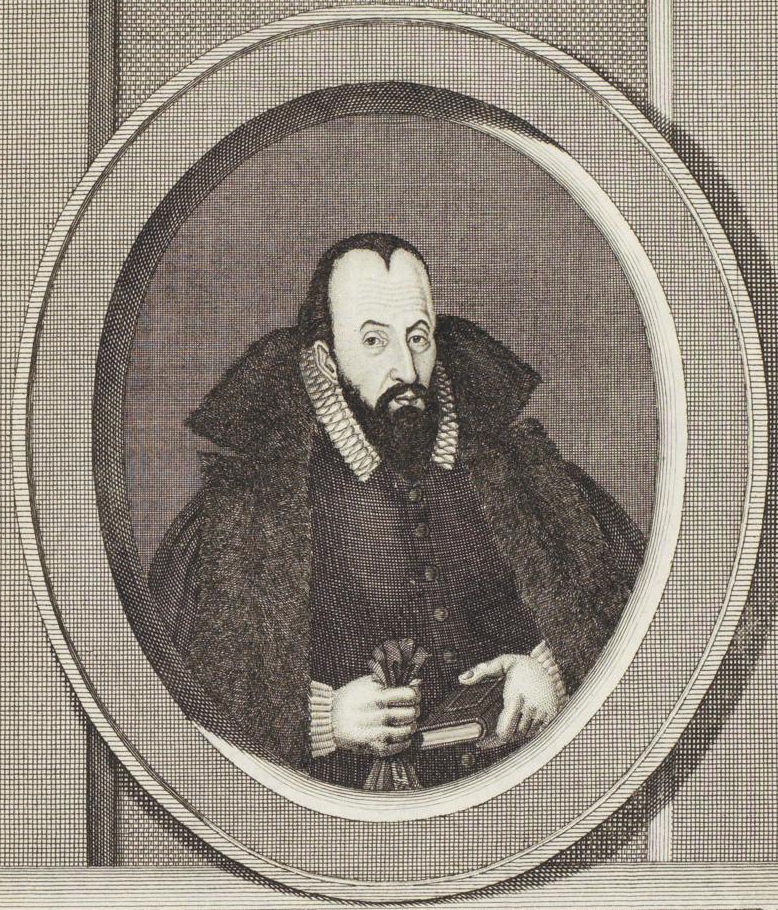 Engraved portrait of Michael Grass der Ältere, in: in: Monumenta inedita rerum Germanicarum praecipue Cimbriacarum et Megapolensium : quibus varia antiquitatum, historiarum, legum iuriumque Germaniae, speciatim Holsatiae et Megapoleos vicinarumque regionum argumenta illustrantur, supplentur et stabiliuntur ; cum tabulis aeri incisis / e codicibus ... studuit ... et cum praefatione instruxit Ernestus Joachimus de Westphalen .. Band 3, Lipsiae: Martin 1741